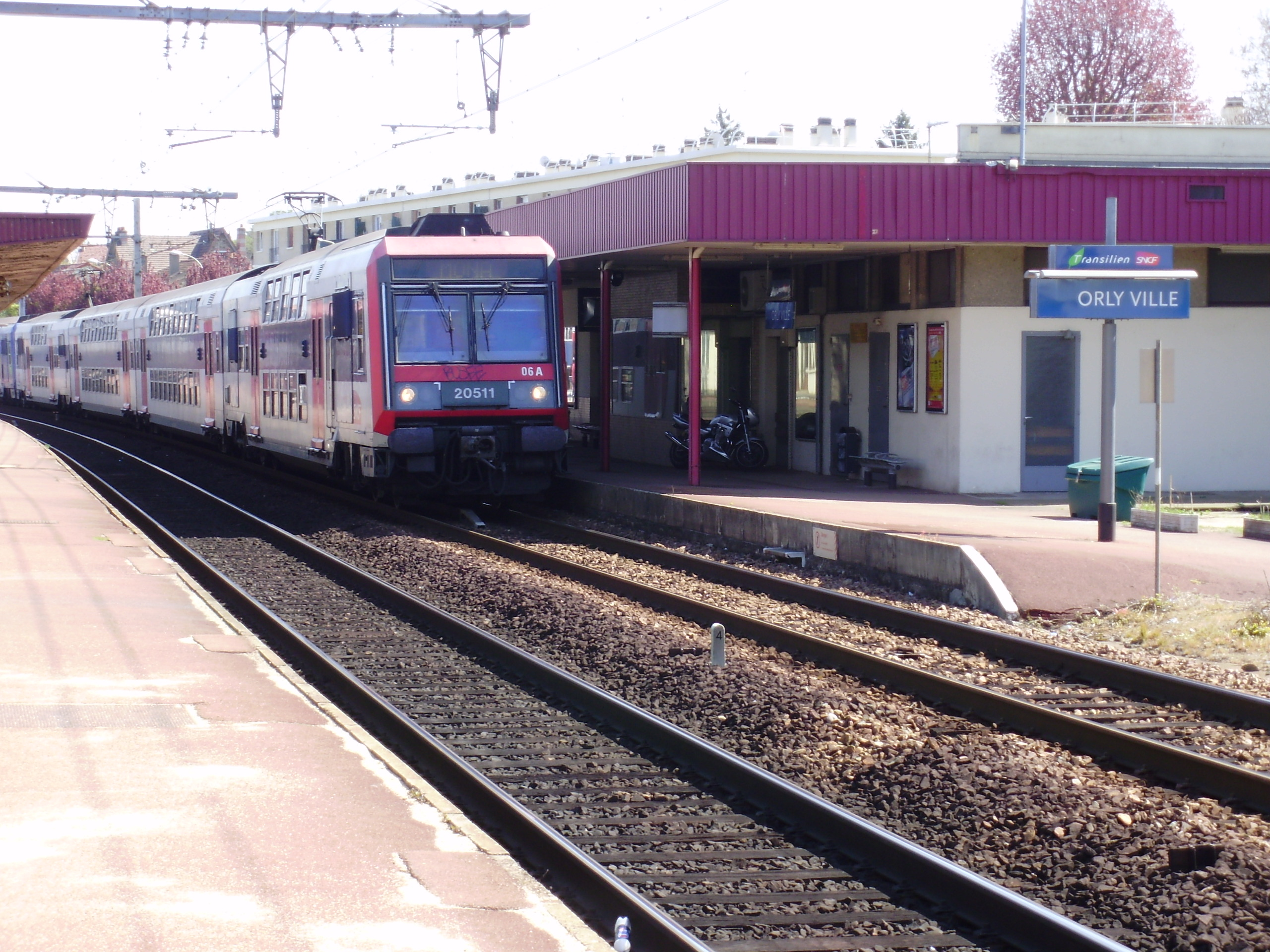 Orly - Ville station, Val-de-Marne, France (arrival of a Class Z 20500 unit from Paris)